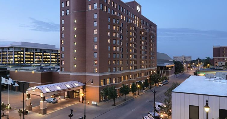 President Abraham Lincoln Hotel, A Doubletree by Hilton, located in Springfield, Illinois USA